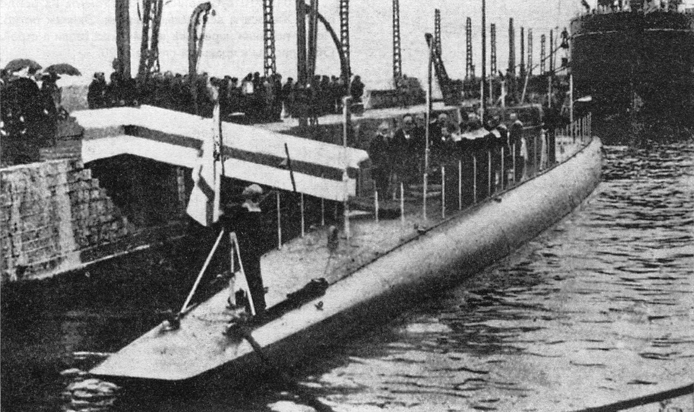 Russian submarine "Saint George". First rising of flag. 20 may 1917.